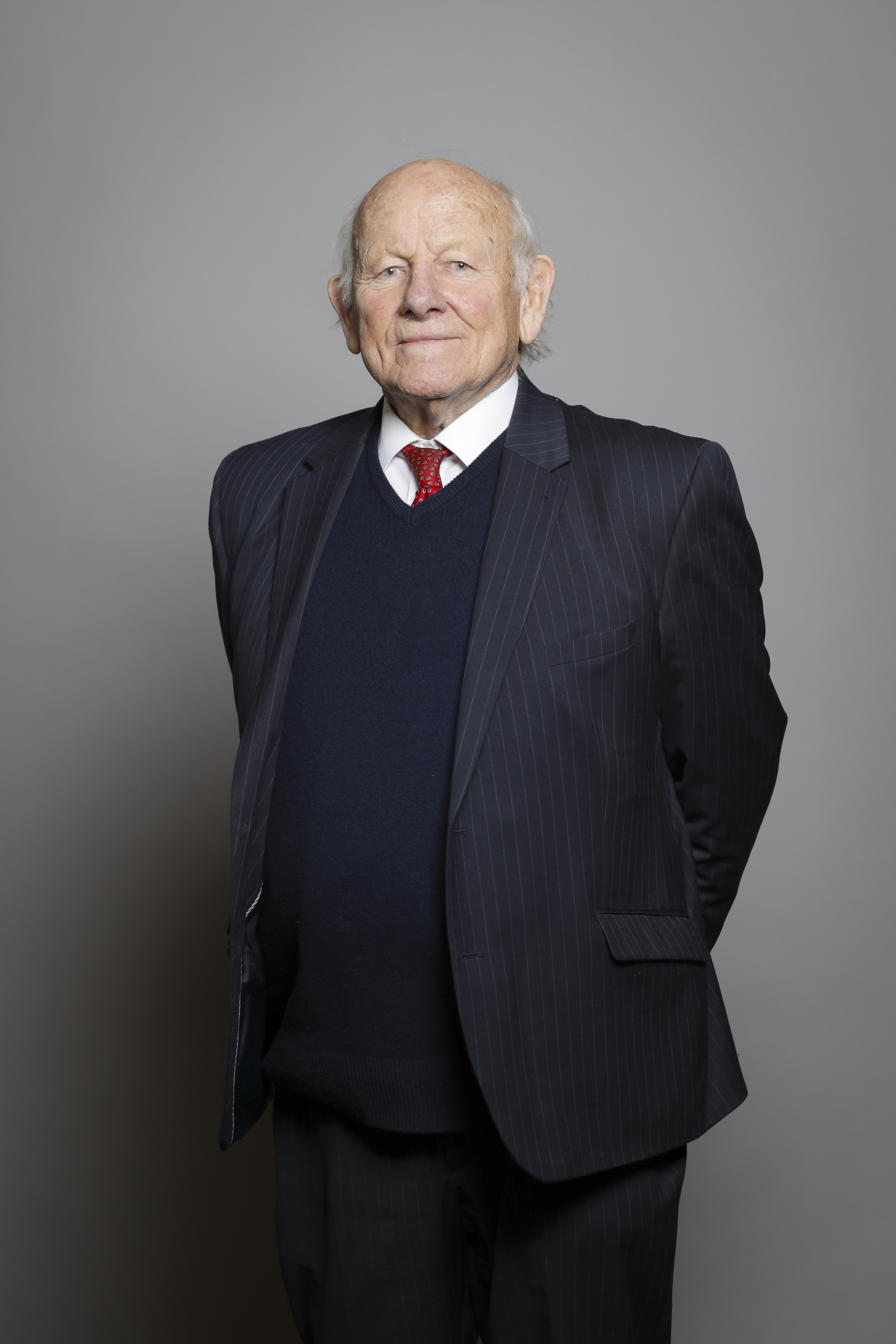 Official portrait of Lord Framlingham Full sized portrait of Lord Framlingham